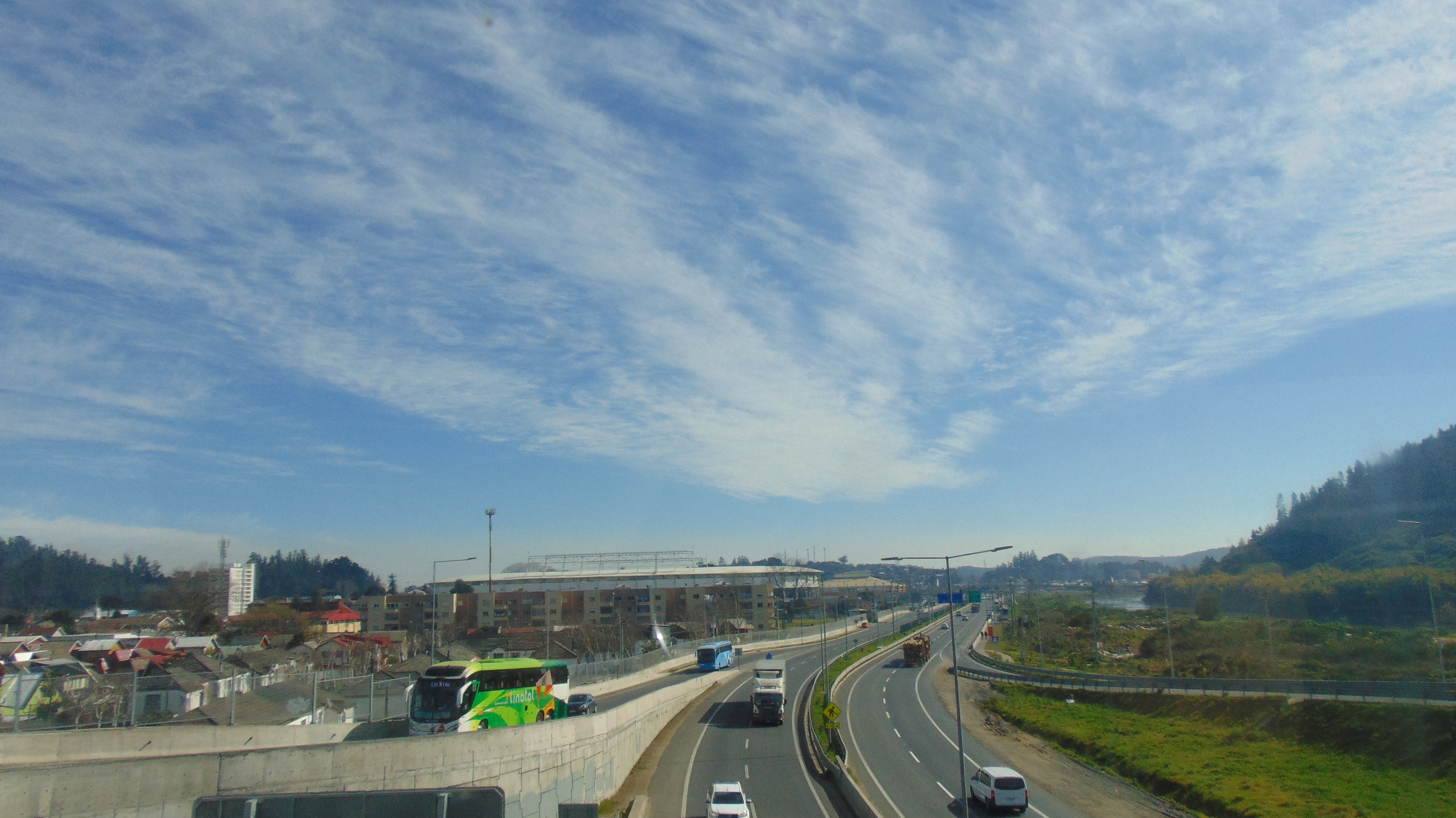 Collao neighbourhood from Highway Valles del Biobío, (Route CH-146) (Exit Palomares-Nonguén) Concepción, Chile